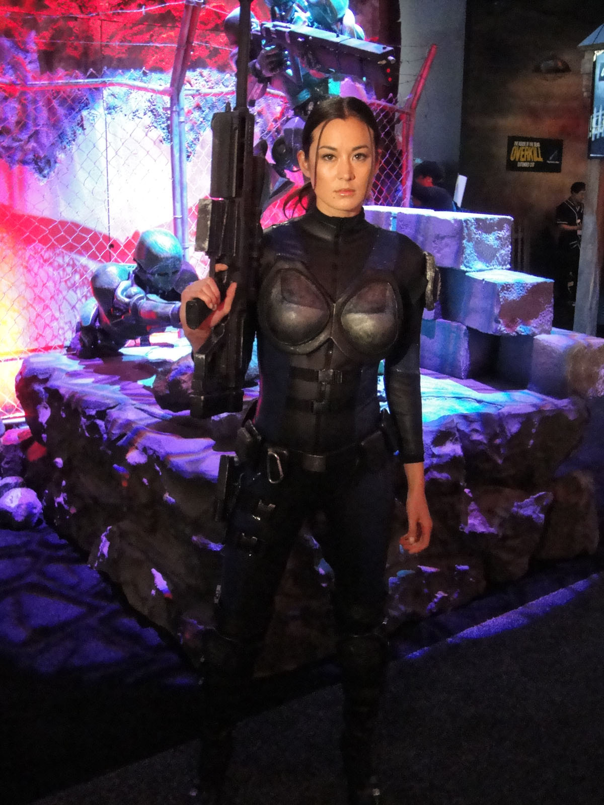 photo 2011 taken by Doug Kline If you're interested in higher resolution versions of my images, contact me via my profile page.